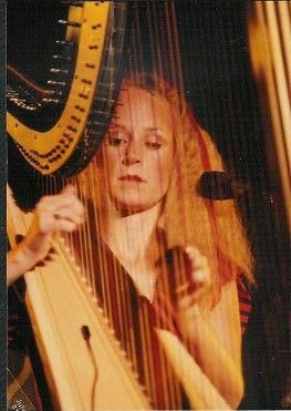 Close up of Shishonee Flynn, in concert, Capital Theater, Flint, Michigan, 1983.